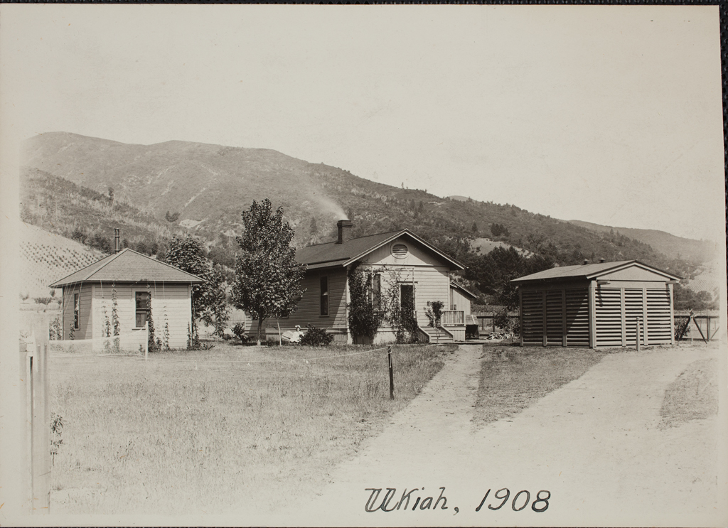 Frank Schlesinger, astronomer, was the first observer to participate in the International Latitude Station site at Ukiah (1899-1903) to study the precession, or wobble of the Earth's axis.